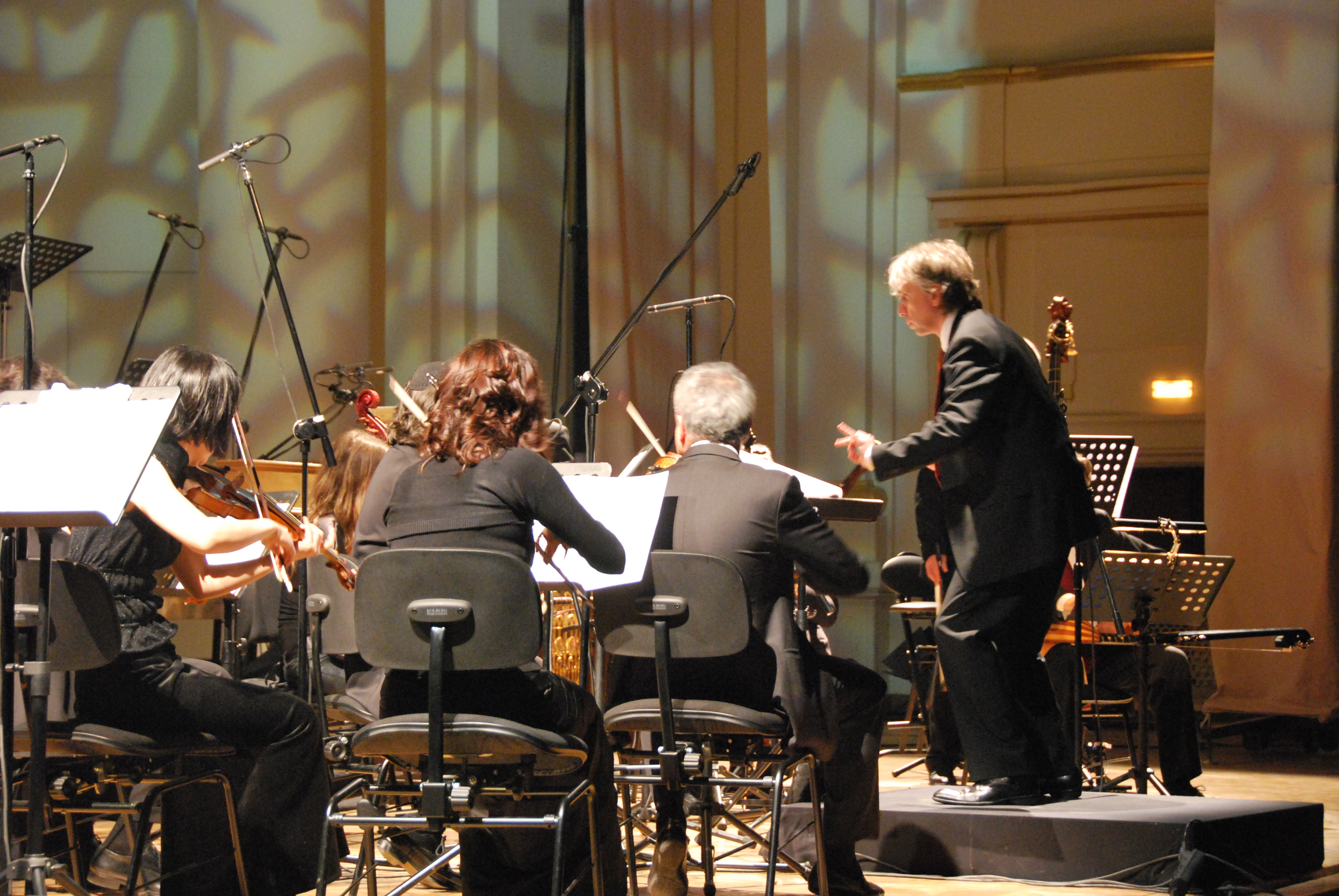 Giovanni Antonini, Misteria Paschalia Festival, Kraków Philharmonic, 04.04.2010.